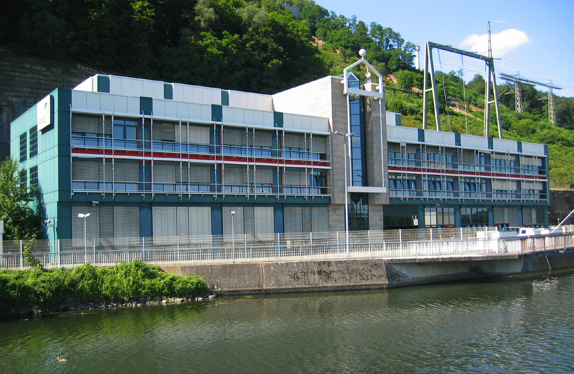 Pumped storage plant "Koepchenwerk" (new building) at the Hengsteysee (Ruhr), Herdecke, North Rhine-Westphalia, Germany.